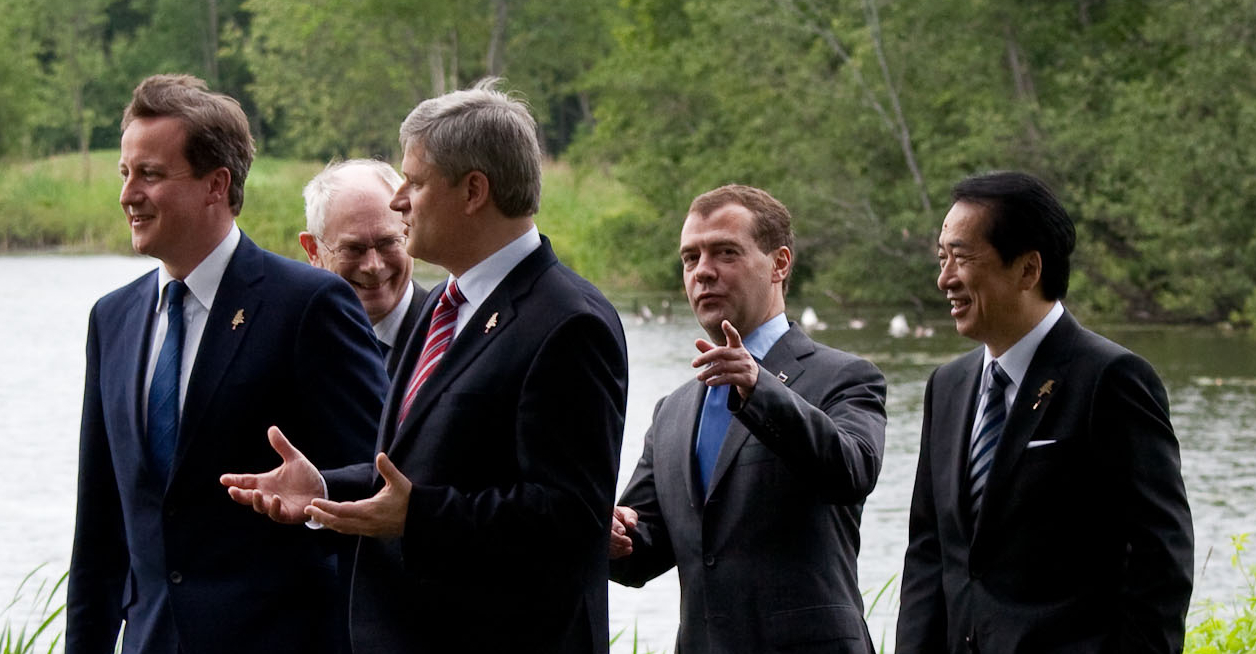 David Cameron, Prime Minister, Herman Van Rompuy, President of the European Council, Stephen Harper, Prime Minister, Dmitry Medvedev, President, Naoto Kan, Prime Minister, Silvio Berlusconi, Prime Minister, Barack Obama, President, José Manuel Barroso, President of the European Commission, Angela Merkel, Chancellor, and Nicolas Sarkozy, President, walked at the 36th G8 summit in Muskoka District Municipality, Ontario Province on June 25, 2010.